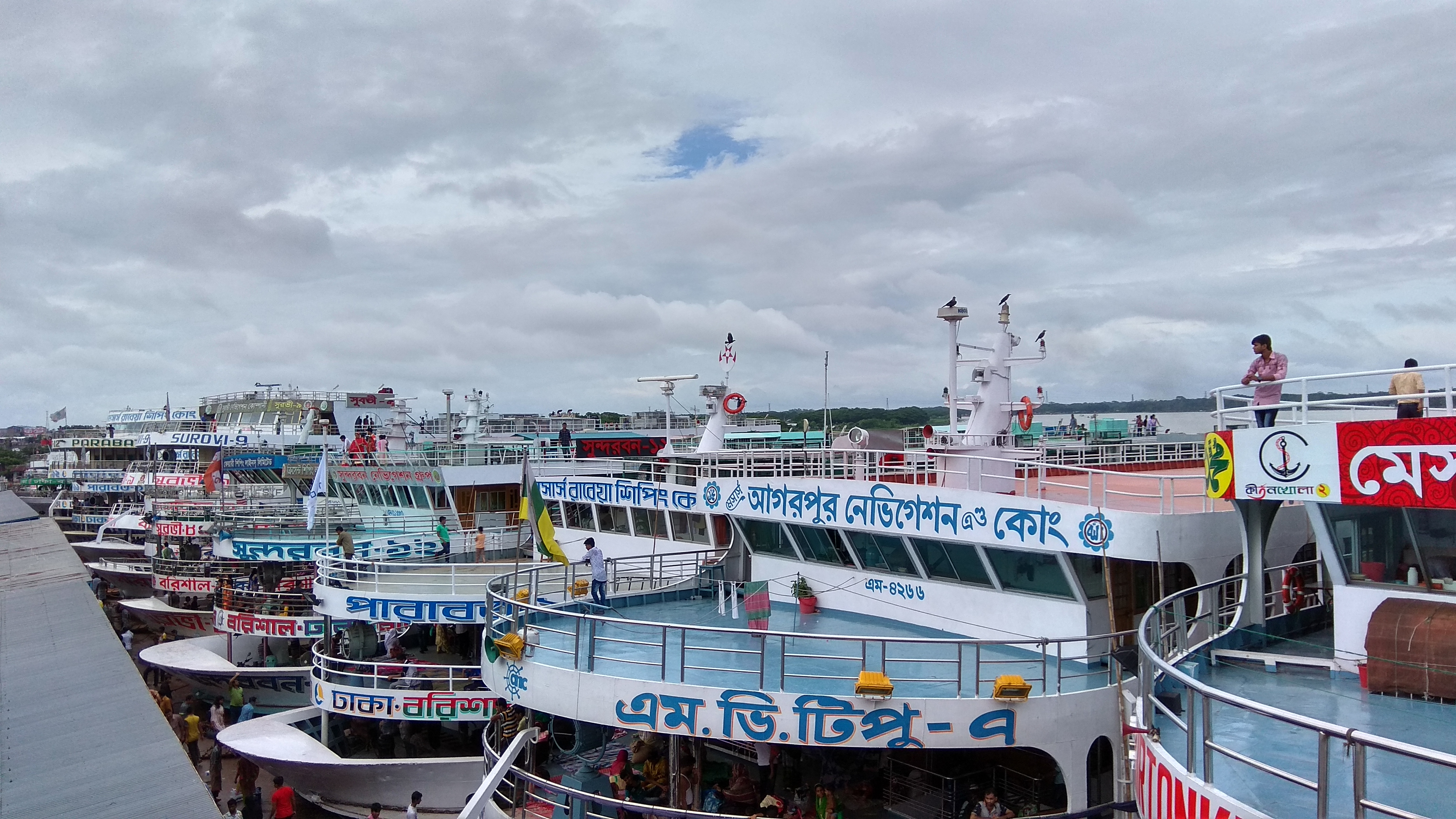 Barisal River Port is located on the bank of Kirtankhola river in Bangladesh. It's the second largest river port in the country followed by Dhaka Sadarghat Port